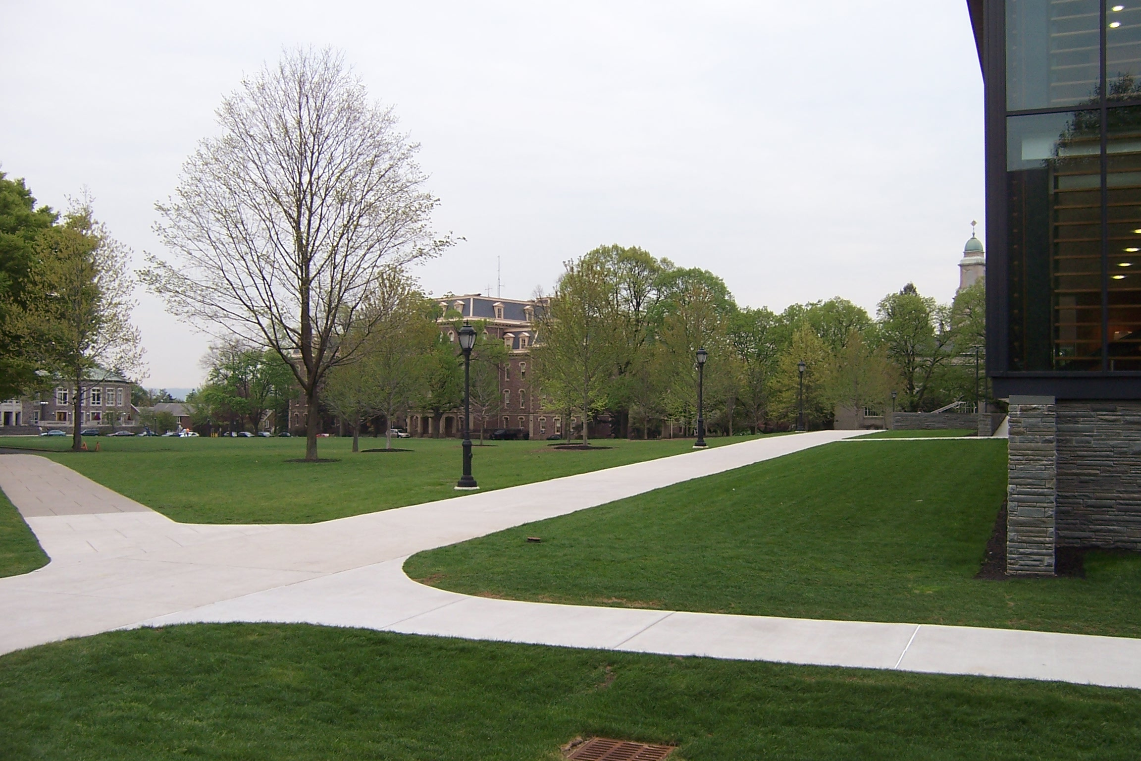 The Quad, Lafayette College, at Easton, Pennsylvania, United States.